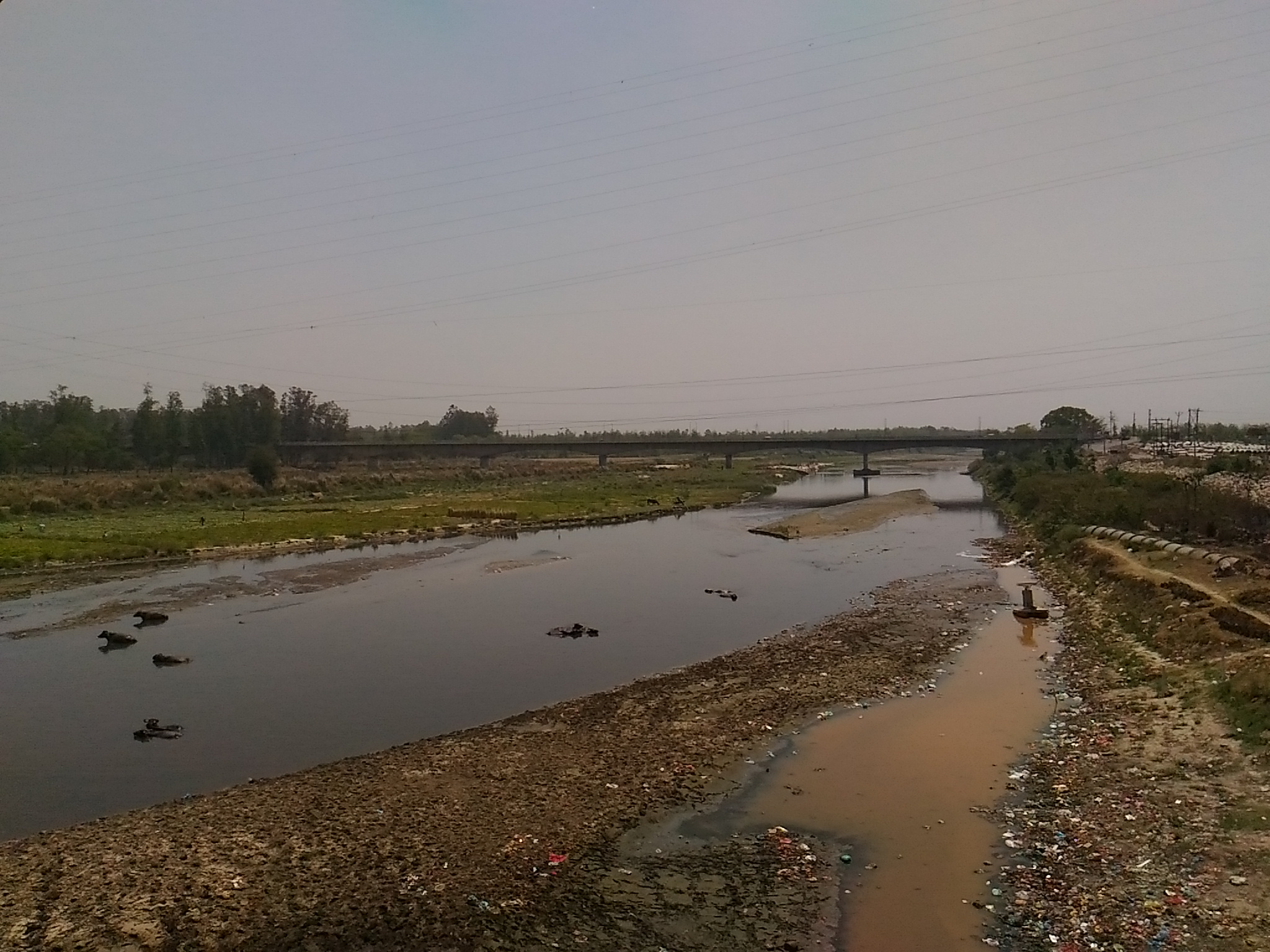 Ramganga near Muradabad